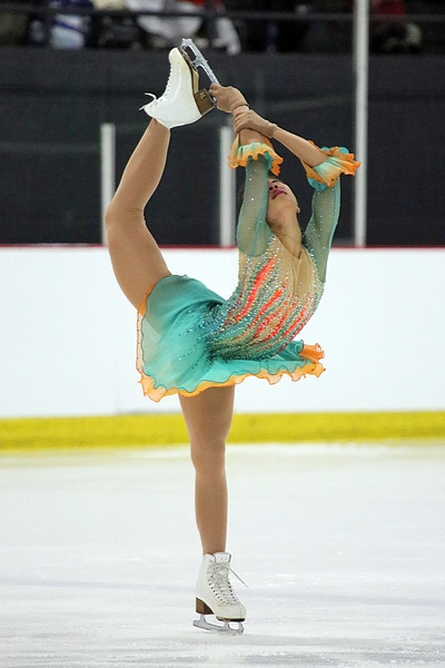 Photos – Autumn Classic – Ladies (Rin NITAYA JPN – 6th Place)